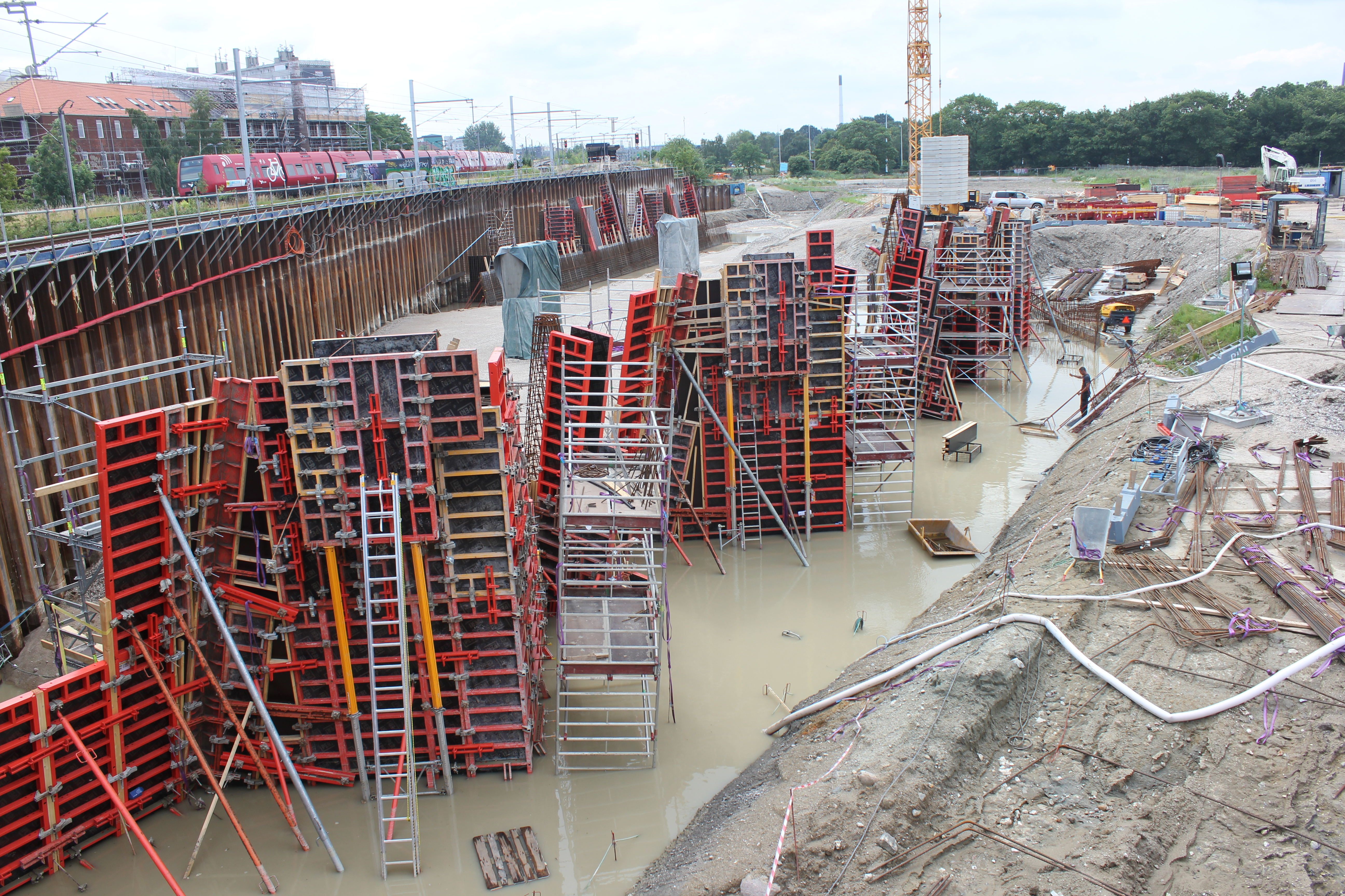 Nordhavnsvej construction site July 2011 after torrential rains.